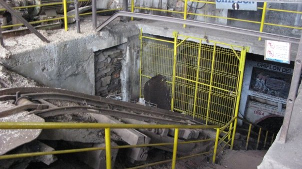 Entrance to El Chiflón del Diablo. This is a photo of a national monument in Chile: 2129